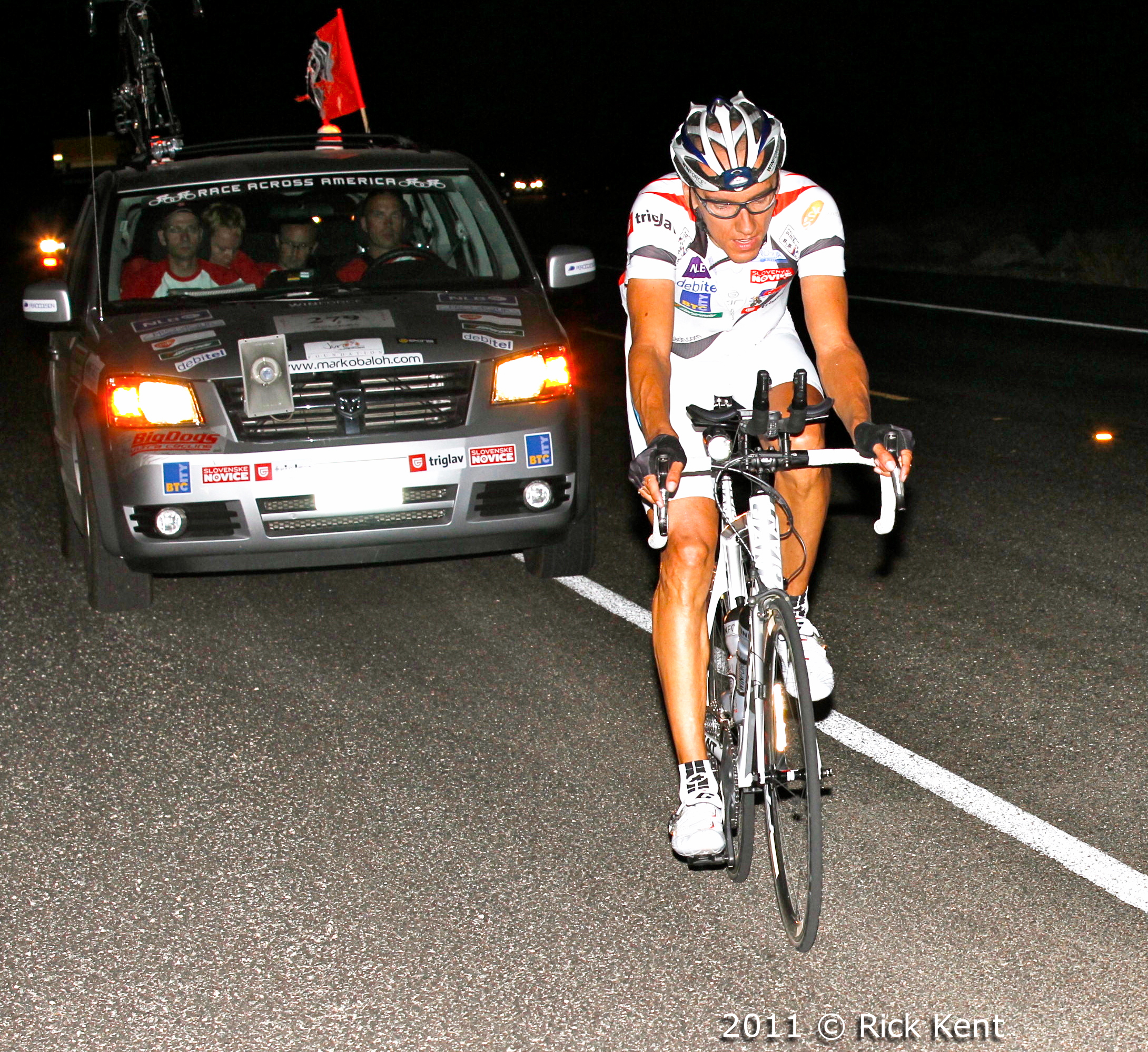 Competitors in the Race Across America must expect to ride around the clock in order to complete the event as an official finisher. Marko Bolah (Slovenia) shown here is followed by the required pace vehicle in the 2011 "RAAM" in the early portion of the race in 2nd place.